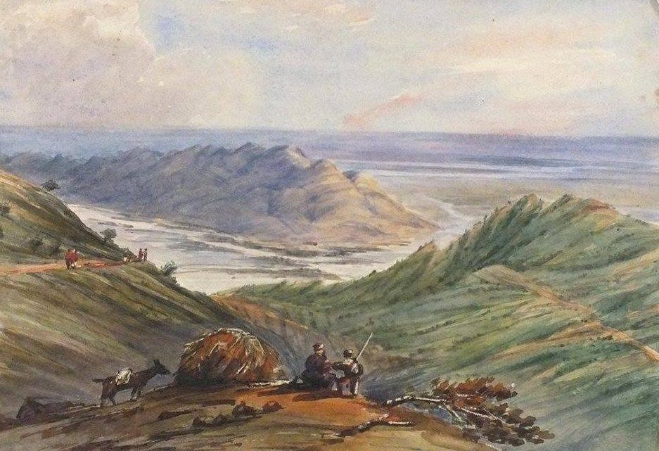 HENRY BRABAZON URMSTON painting 20 Aug 1864